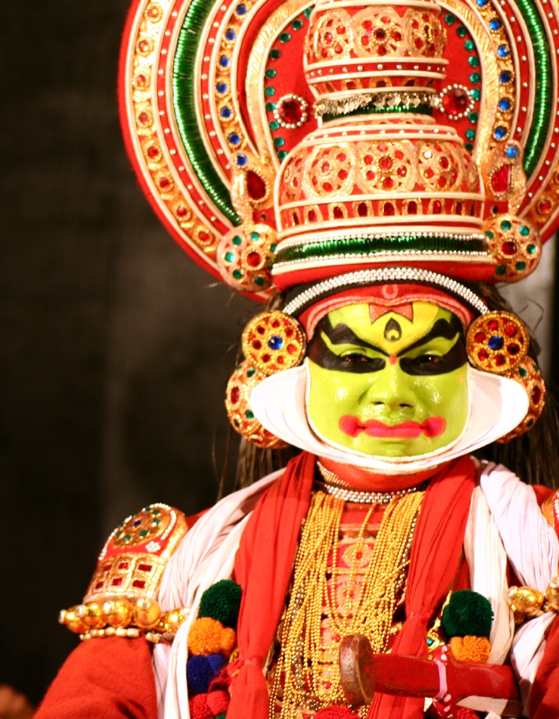 Close-up of a Kathakali performer.